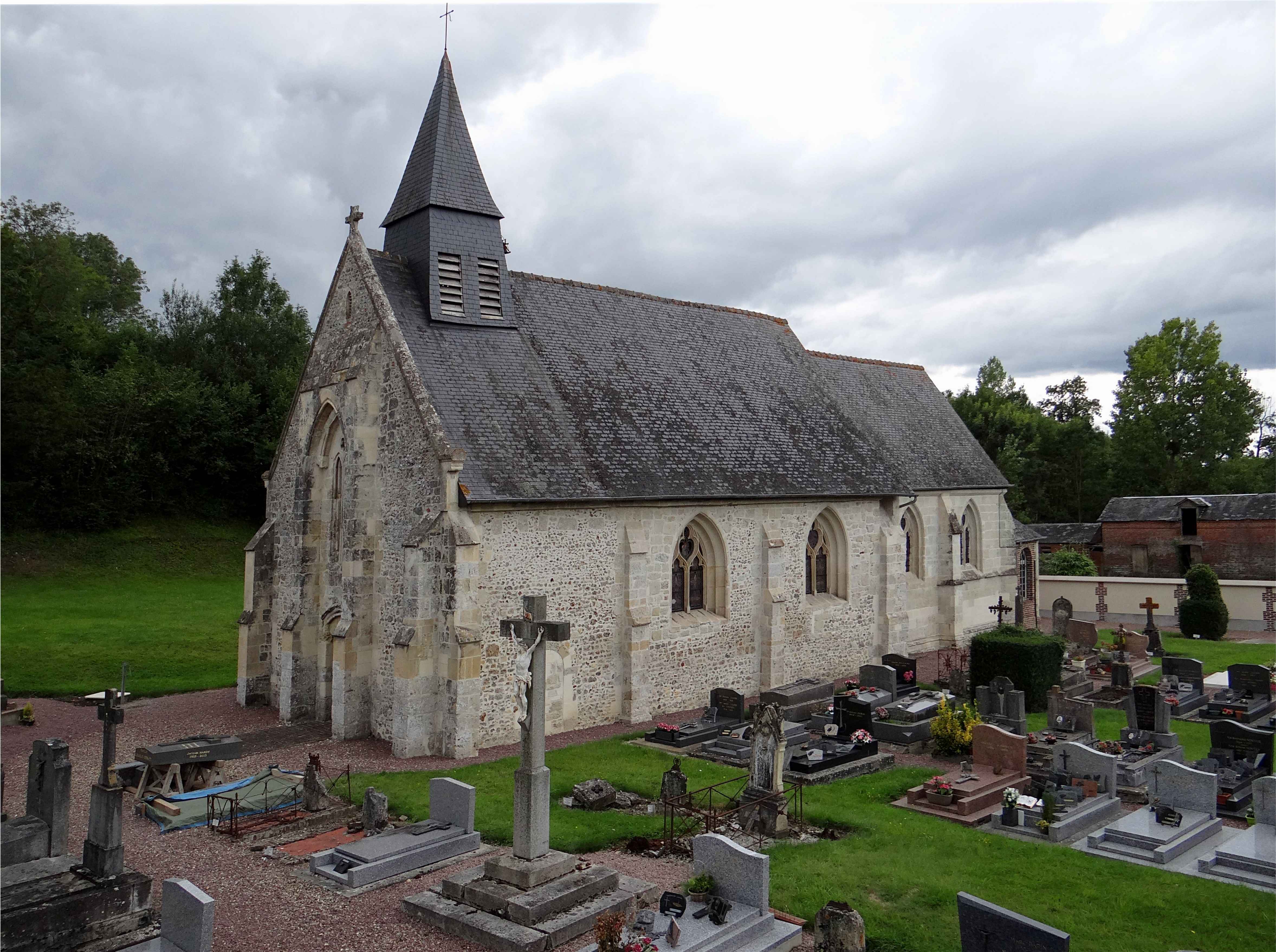 Church of St. Gabriel, Valsemé, Calvados, France.